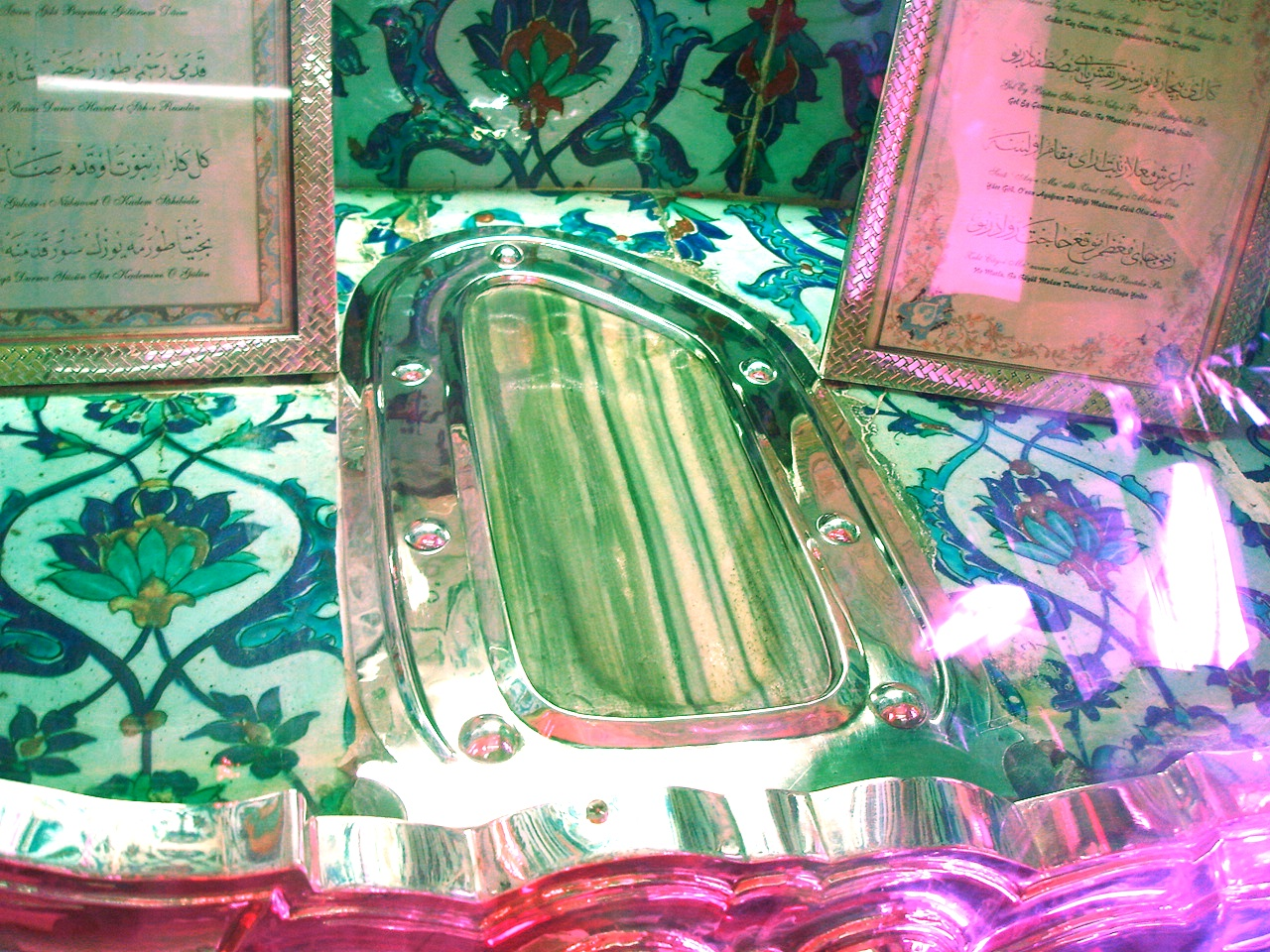 Istanbul - A footprint by prophet Muhammad impressed by miracle in stone, preserved in the türbe (funerary mausoleum) in Eyüp. - Picture by: Giovanni Dall'Orto, May 30 2006.